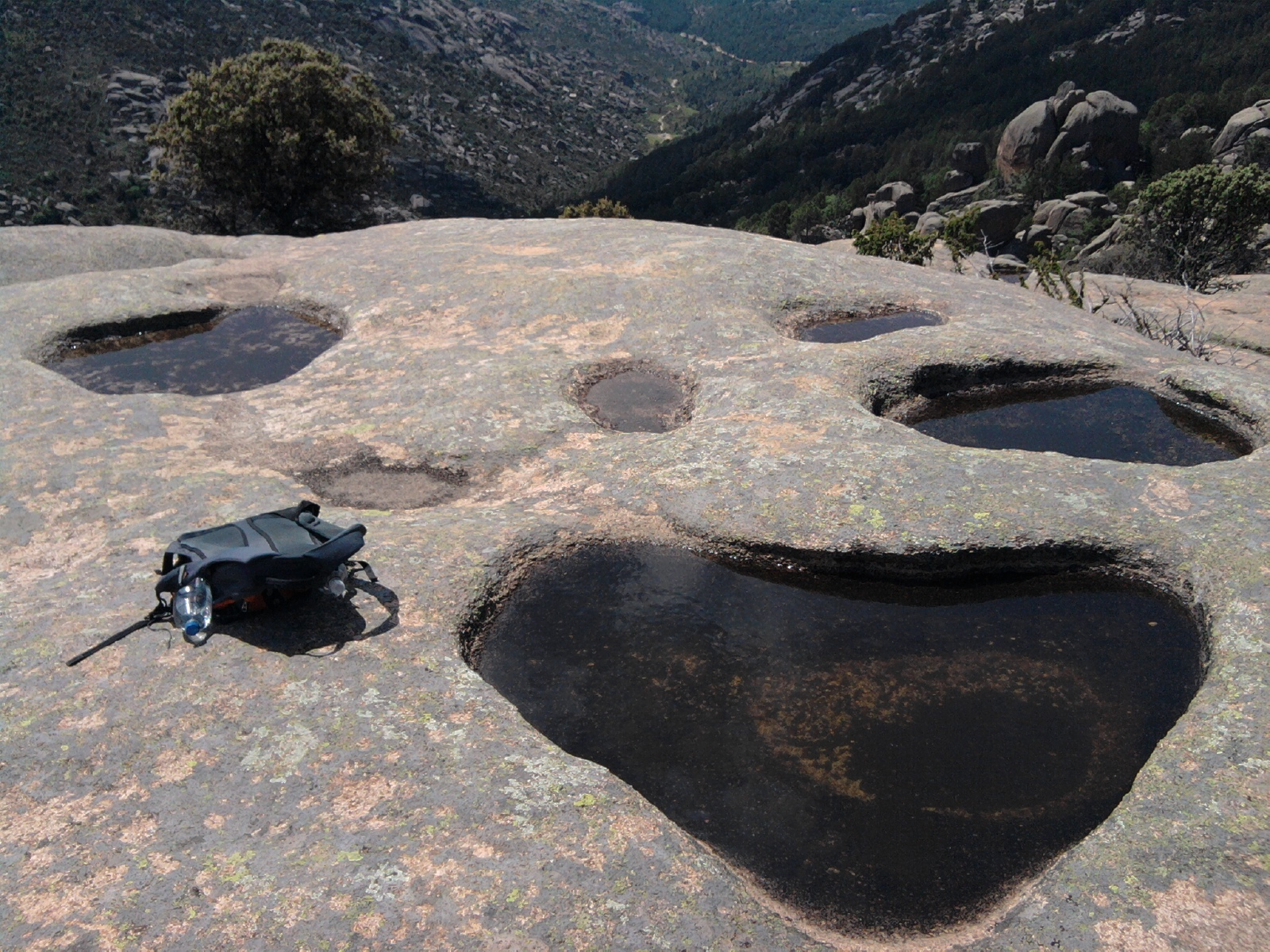 Some gnammas on La Pedriza, Madrid (Spain)